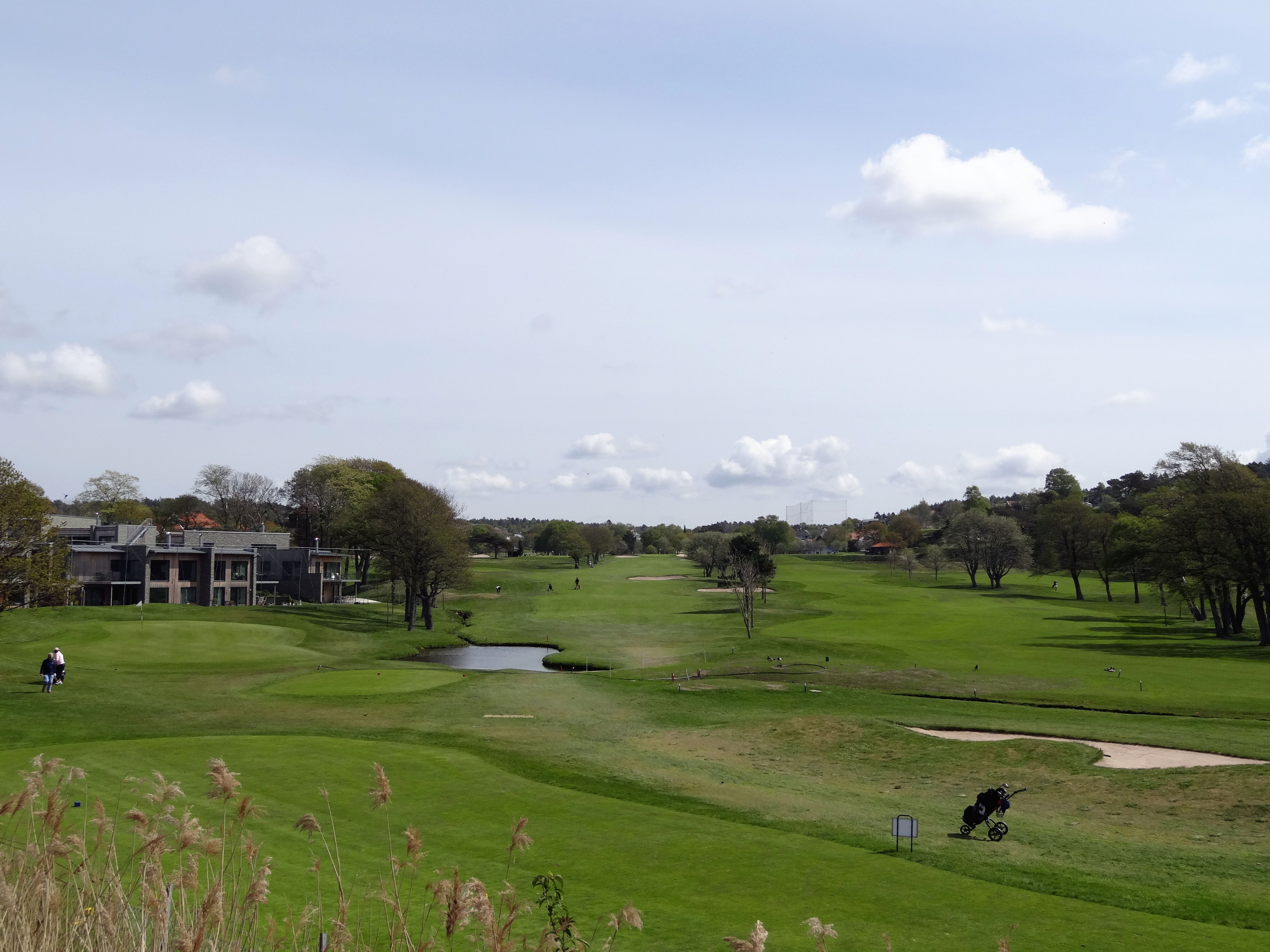 Golf course in Hovås, Göteborg.